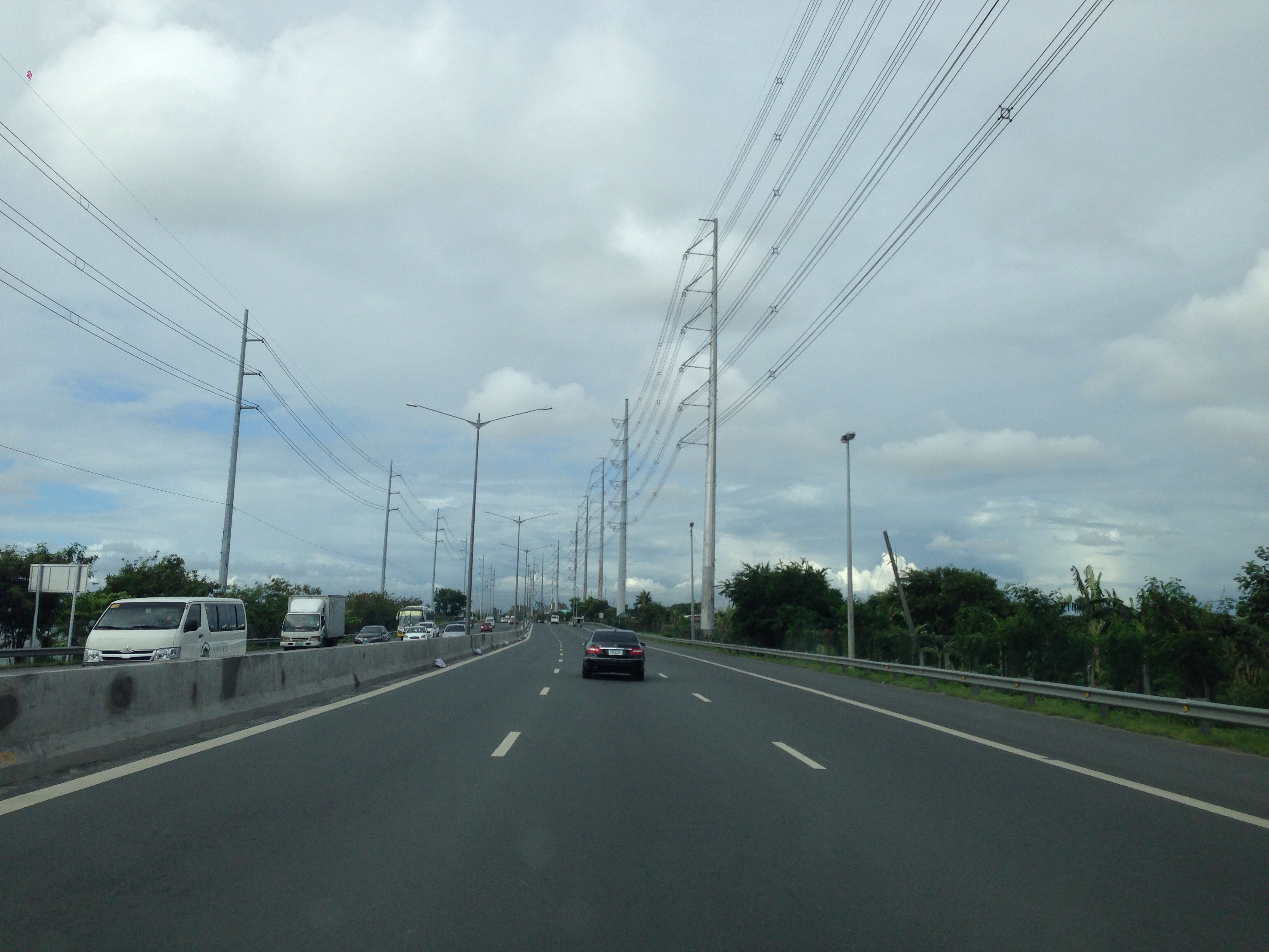 Manila–Cavite Expressway, also known as Coastal Road, looking northbound near Zapote in Las Piñas, Metro Manila, Philippines